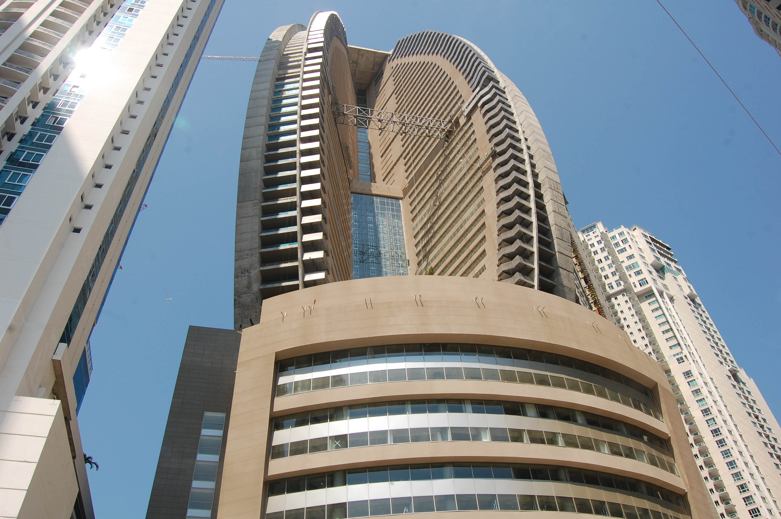 Trump Ocean Club, Panama.